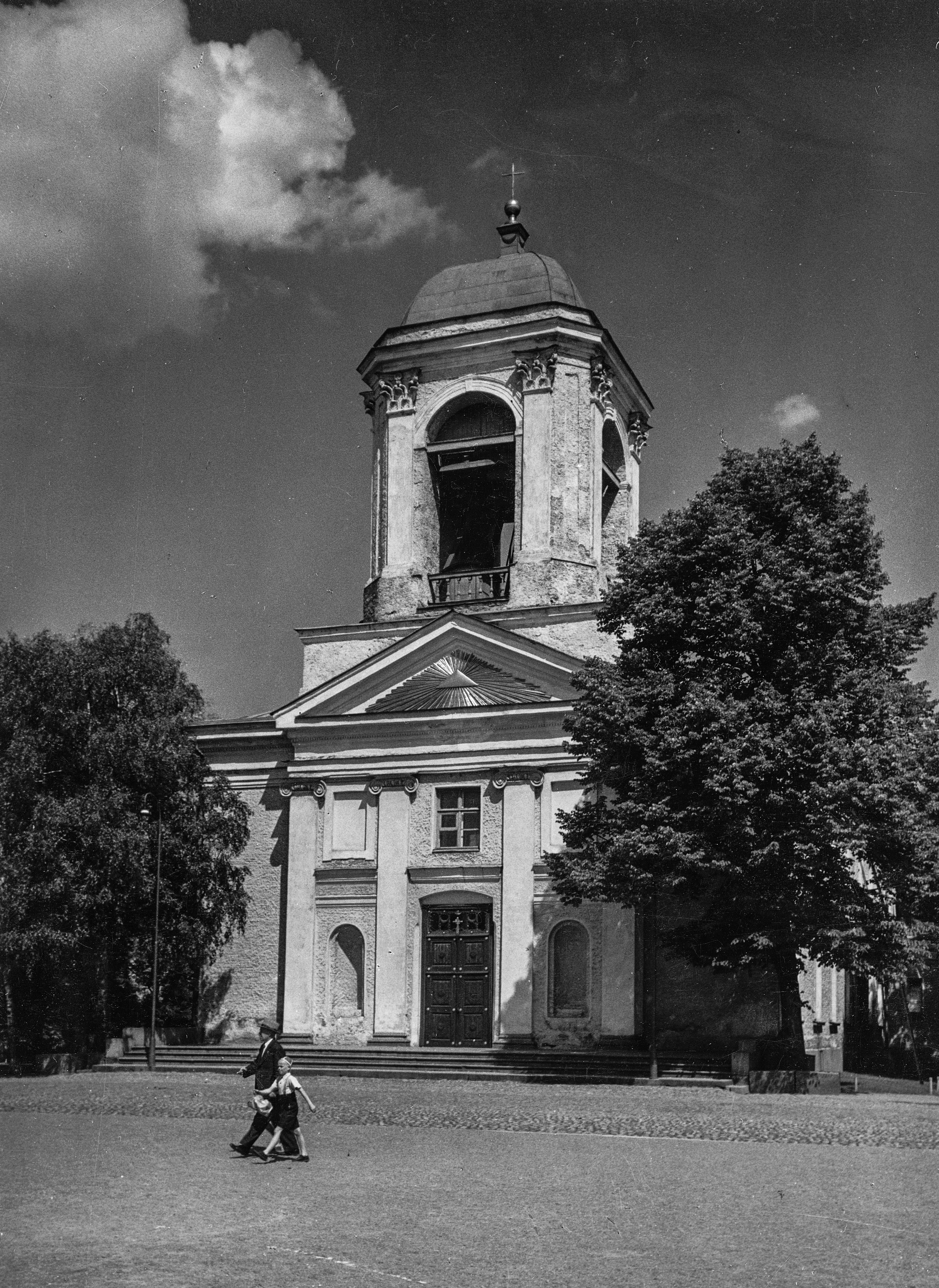 Viipurin saksalaisen seurakunnan Pietari-Paavalin kirkko German Peter-Paul Church in Vyborg Viipuri / Vyborg 1930-luku / 1930's Hopeagelatiinivedos / Silvergelatinprint The Finnish Museum of Photography / Suomen valokuvataiteen museo Contact / Ota yhteyttä